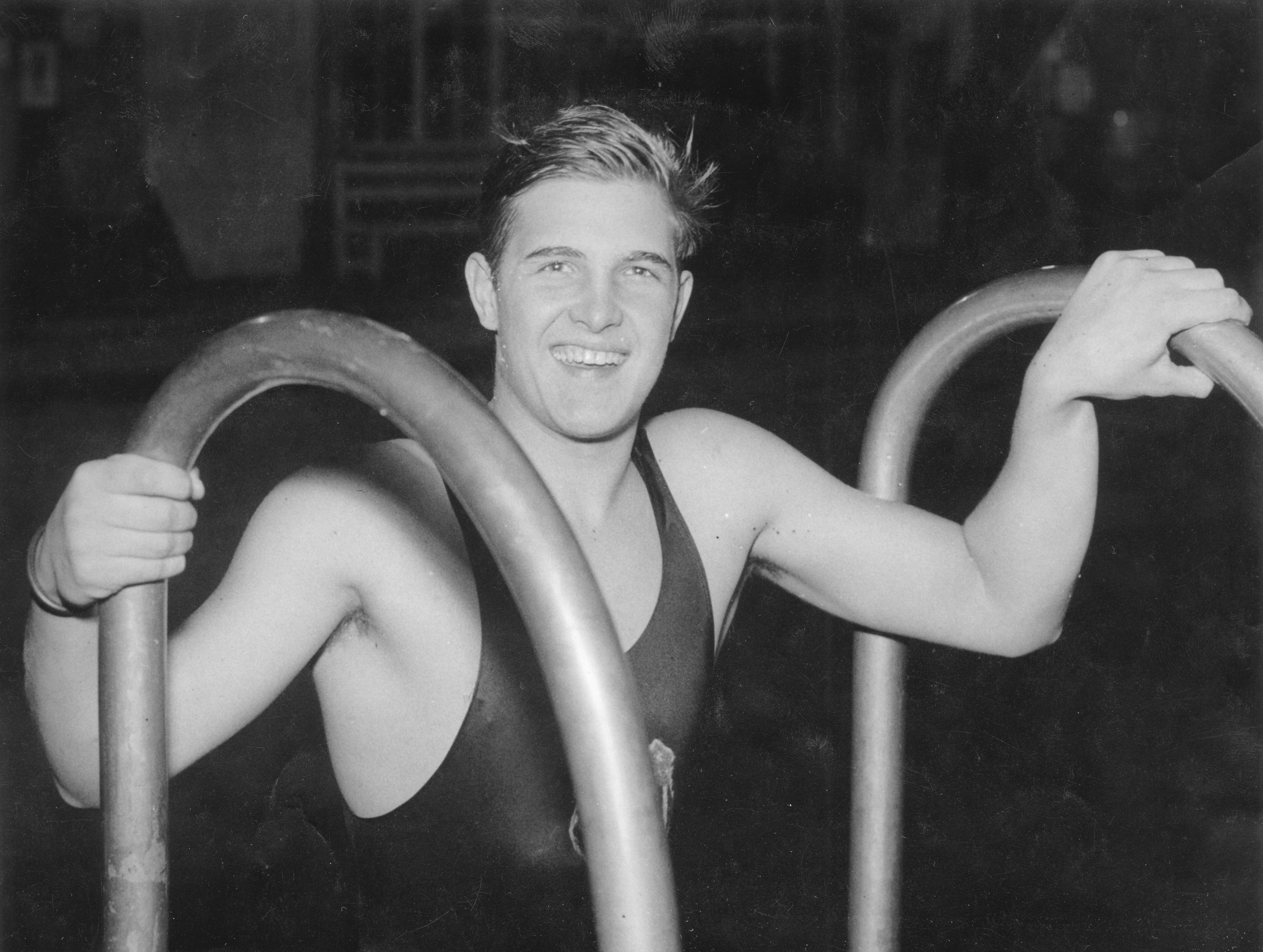 The American swimmer Adolph Kiefer at a swimming competition in Vienna Diana Bath. 6th November 1935. Photograph.